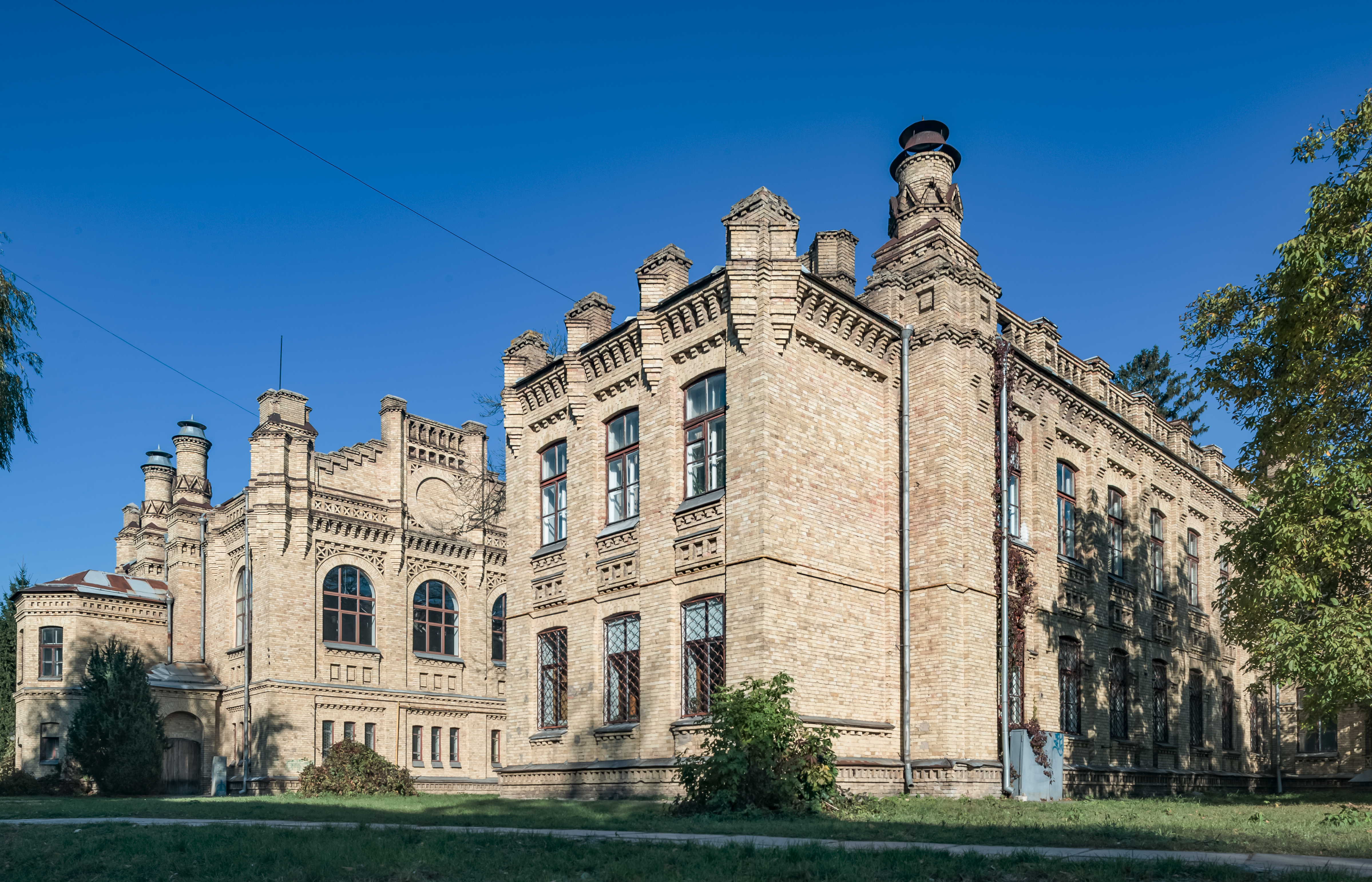 Building of the Politeknika Institute, Kiev, Ukraine